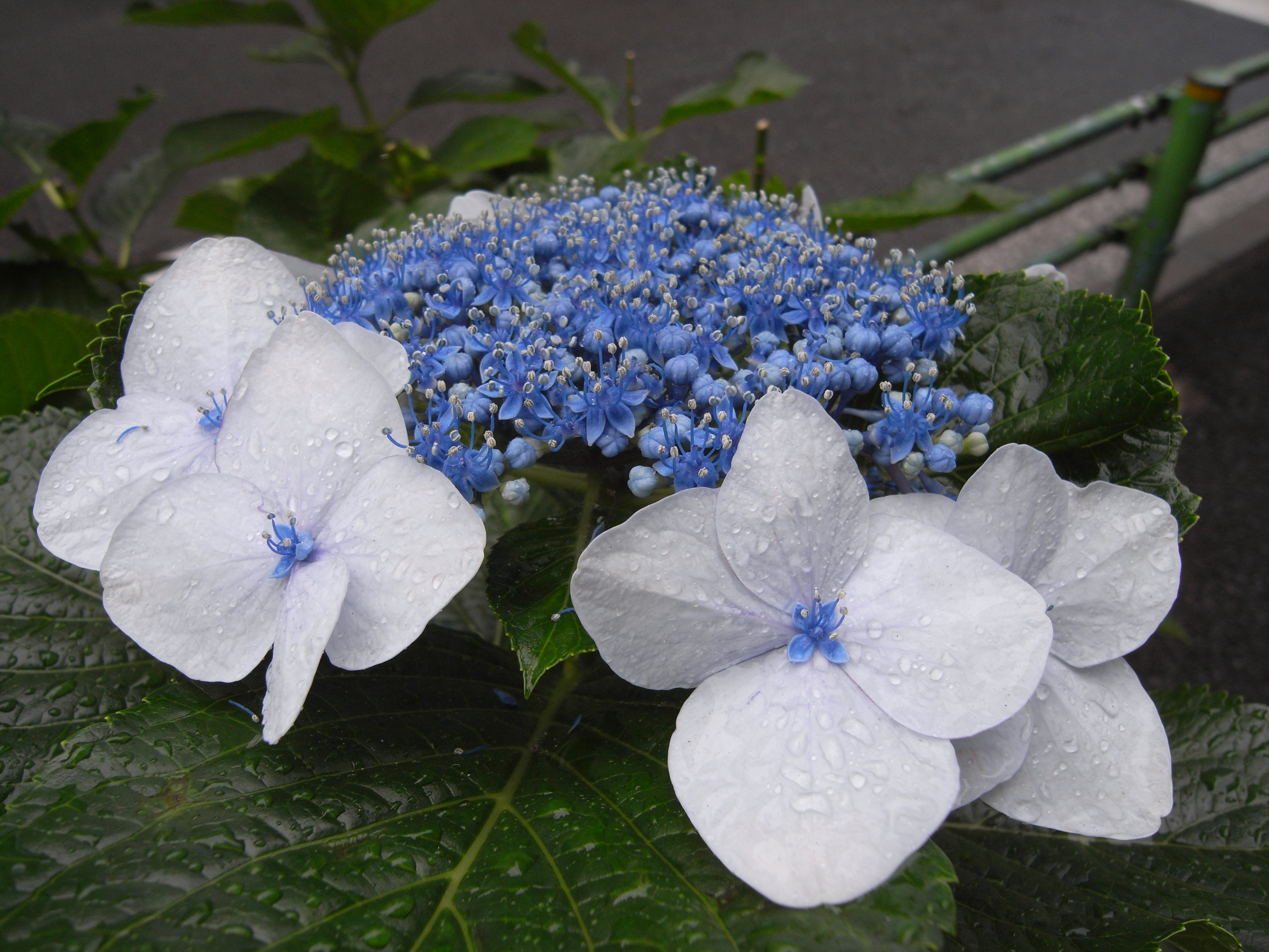 Hydrangea macrophylla ガクアジサイ This is a heirloom type native in Japan. This one has beautiful combination of white and blue